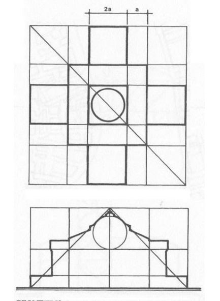 Diagrams of villa capra